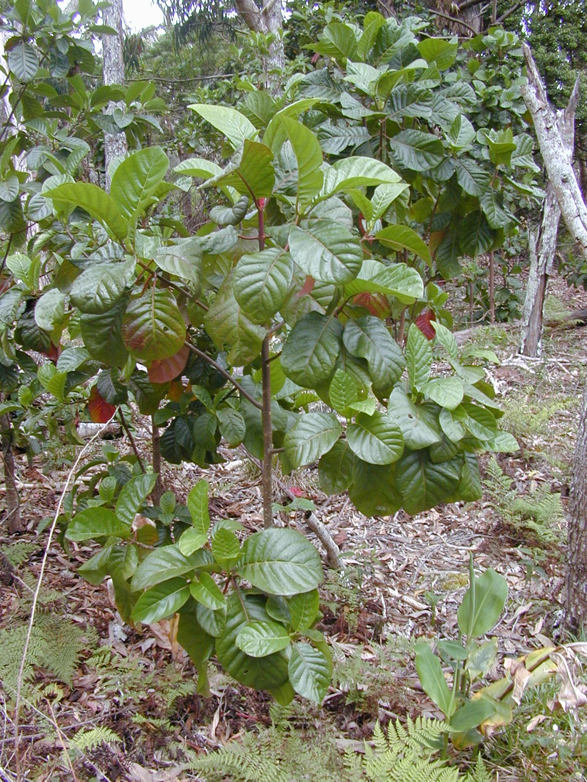 Cinchona pubescens (saplings with red leaves). Location: Maui, Makawao Forest Reserve